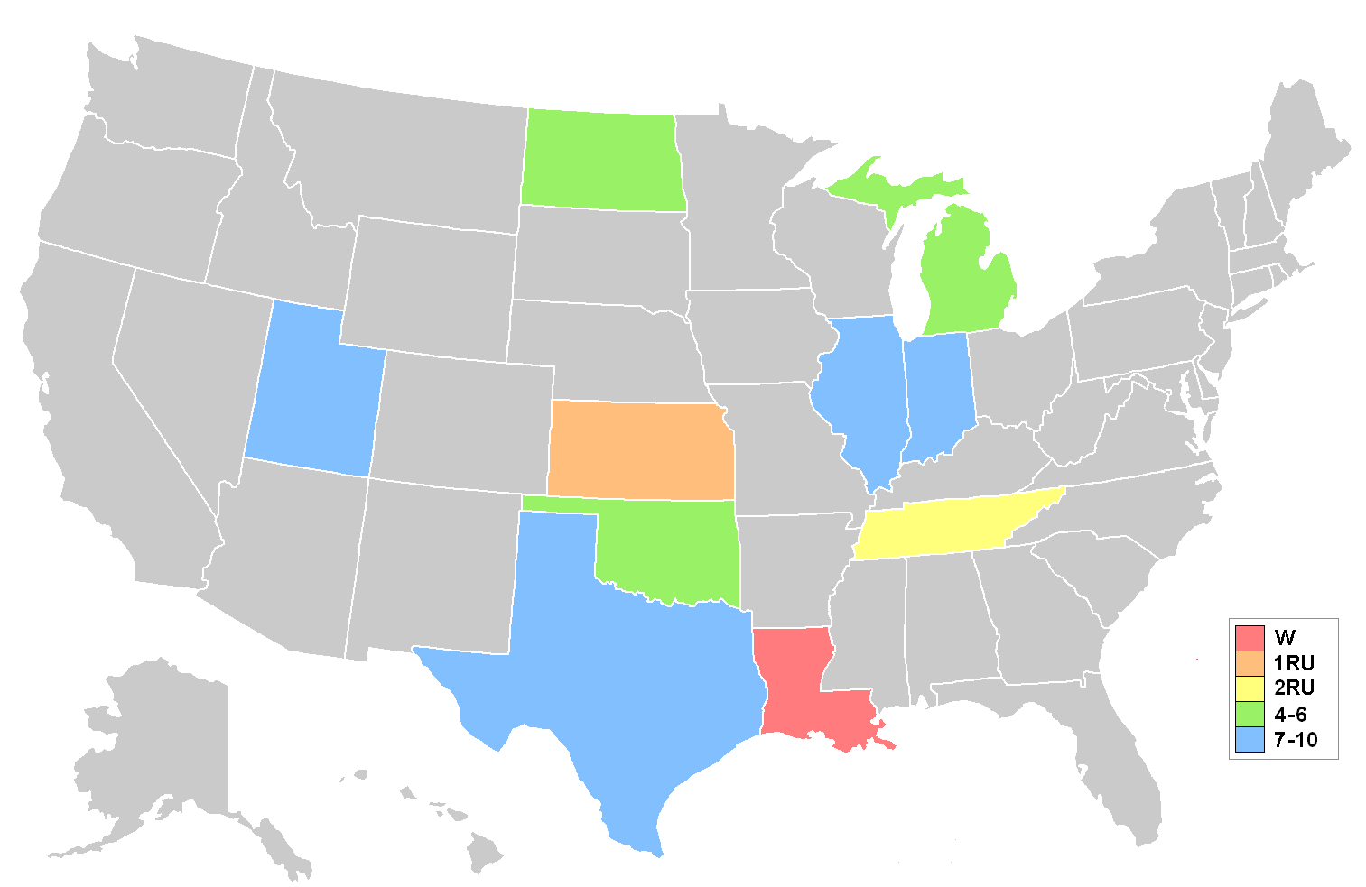 Map showing placements at the Miss USA 1996 pageant. Key on graphic shows colour coding for break down of placements.